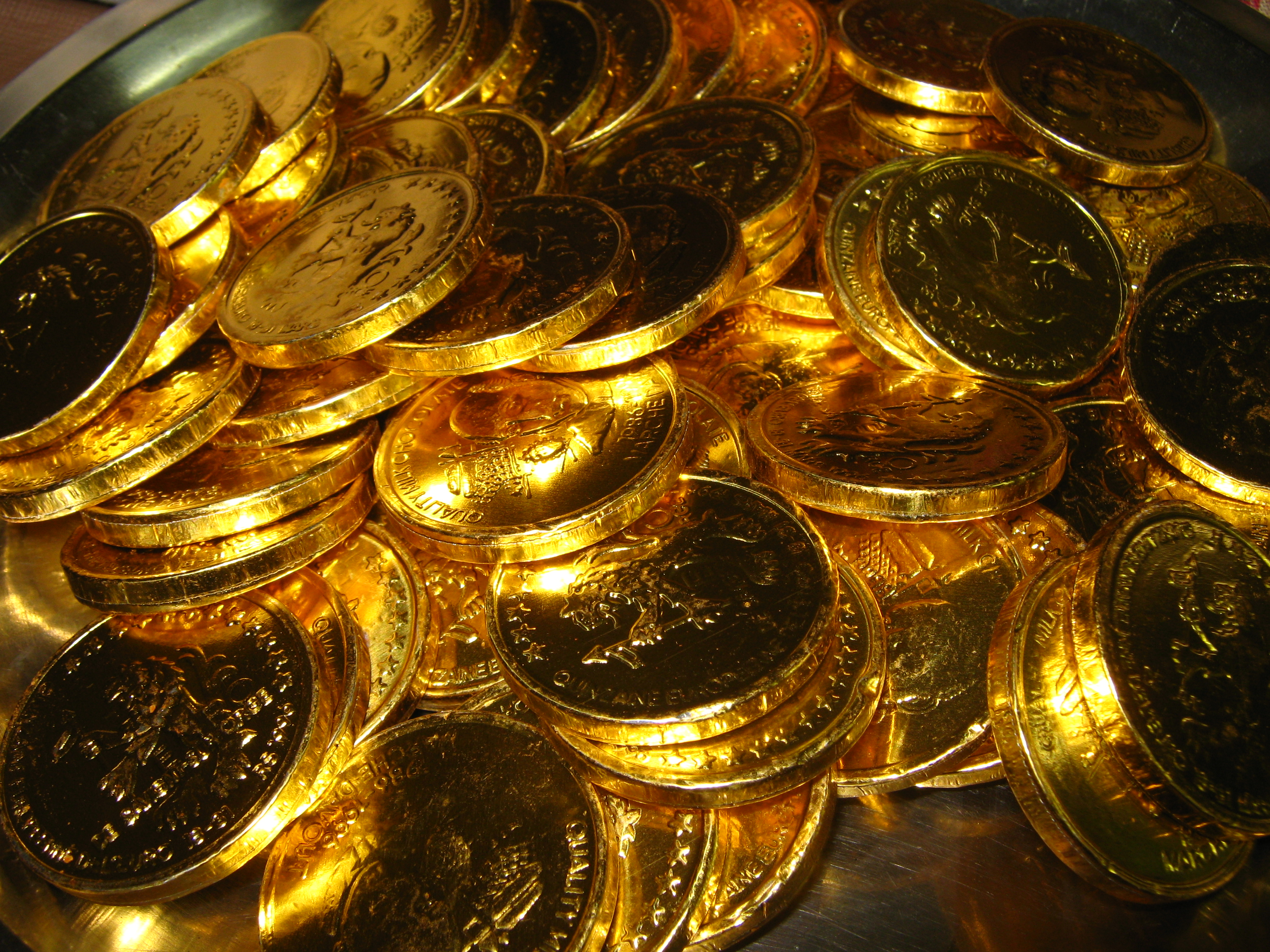 Lot of chocolate coins. Especially loaded for hi:अक्षय तृतीया